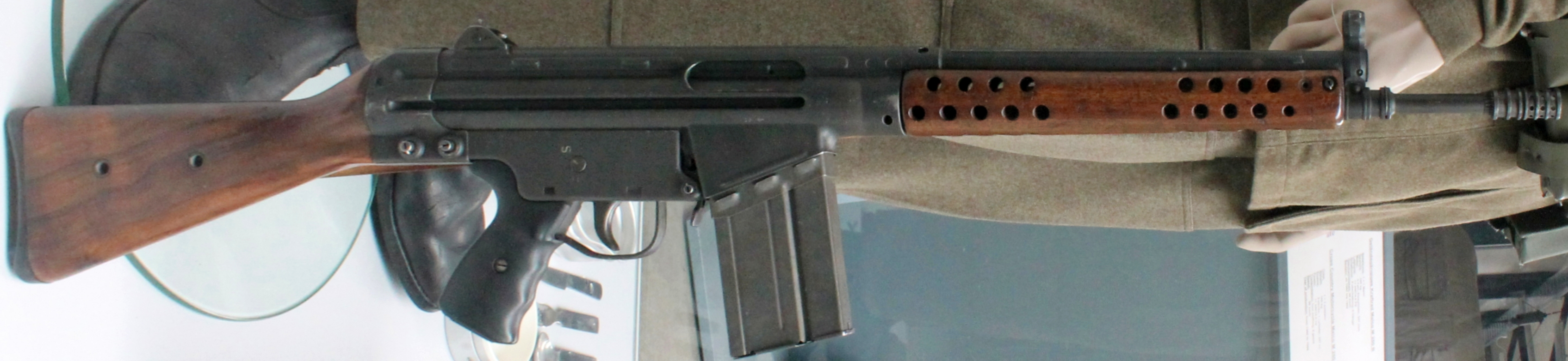 Heckler and Koch G3 automatic battle rifle, first version with wooden handguard.